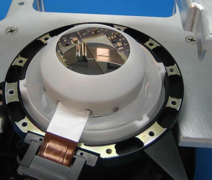 One of the two NuSTAR focal planes, comprised of four CdZnTe 32x32 detectors housed within an active CsI shield.